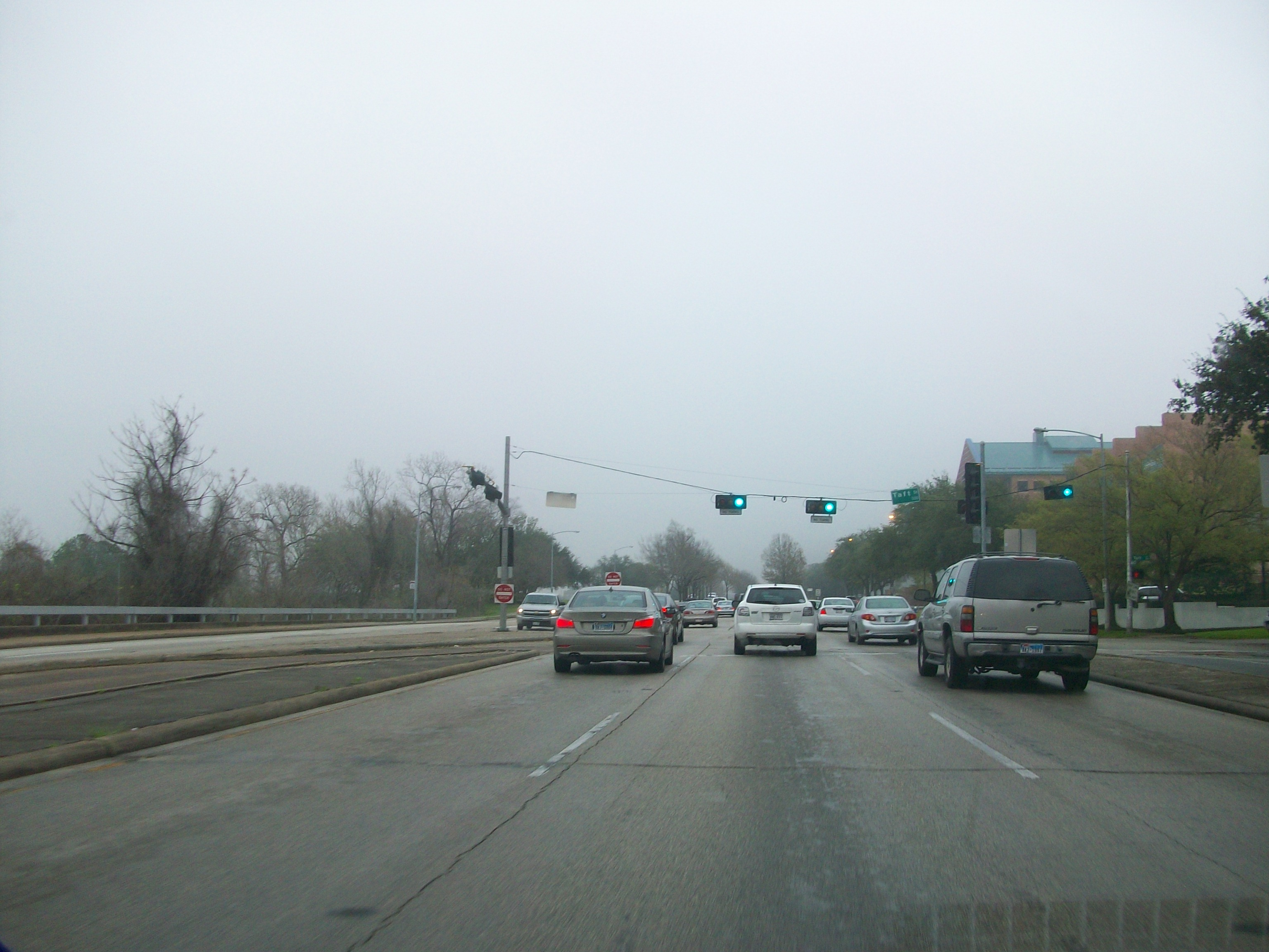 Eastbound Allen Parkway, Houston, TX